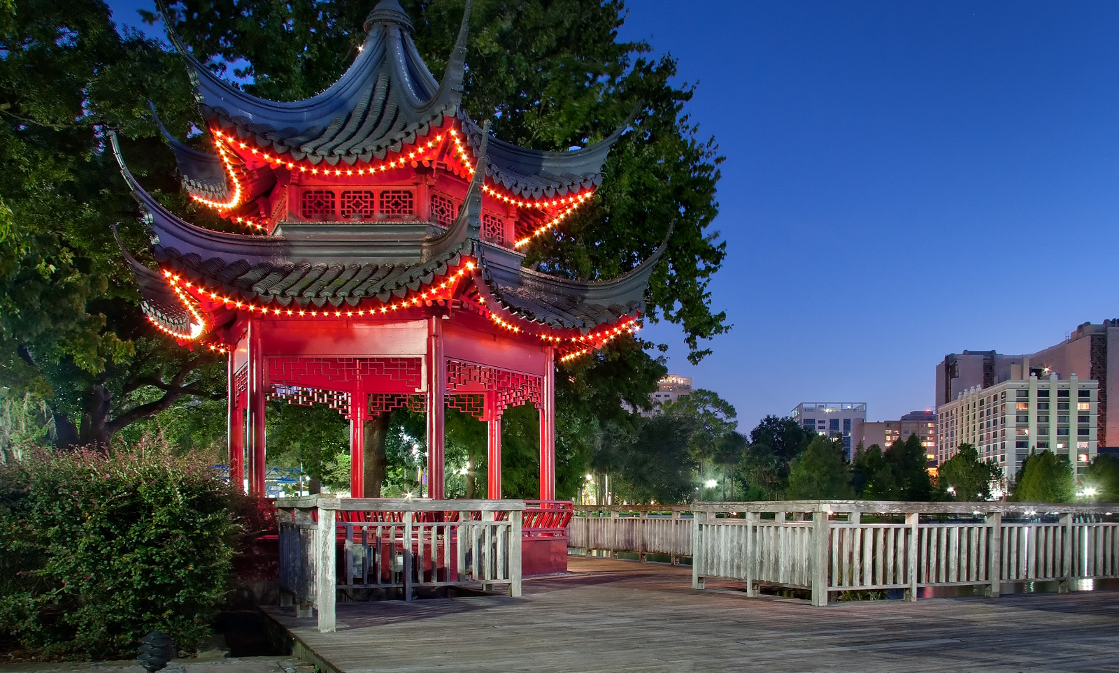 Pagoda photographed at twilight at Lake Eola in Orlando, Florida, United States